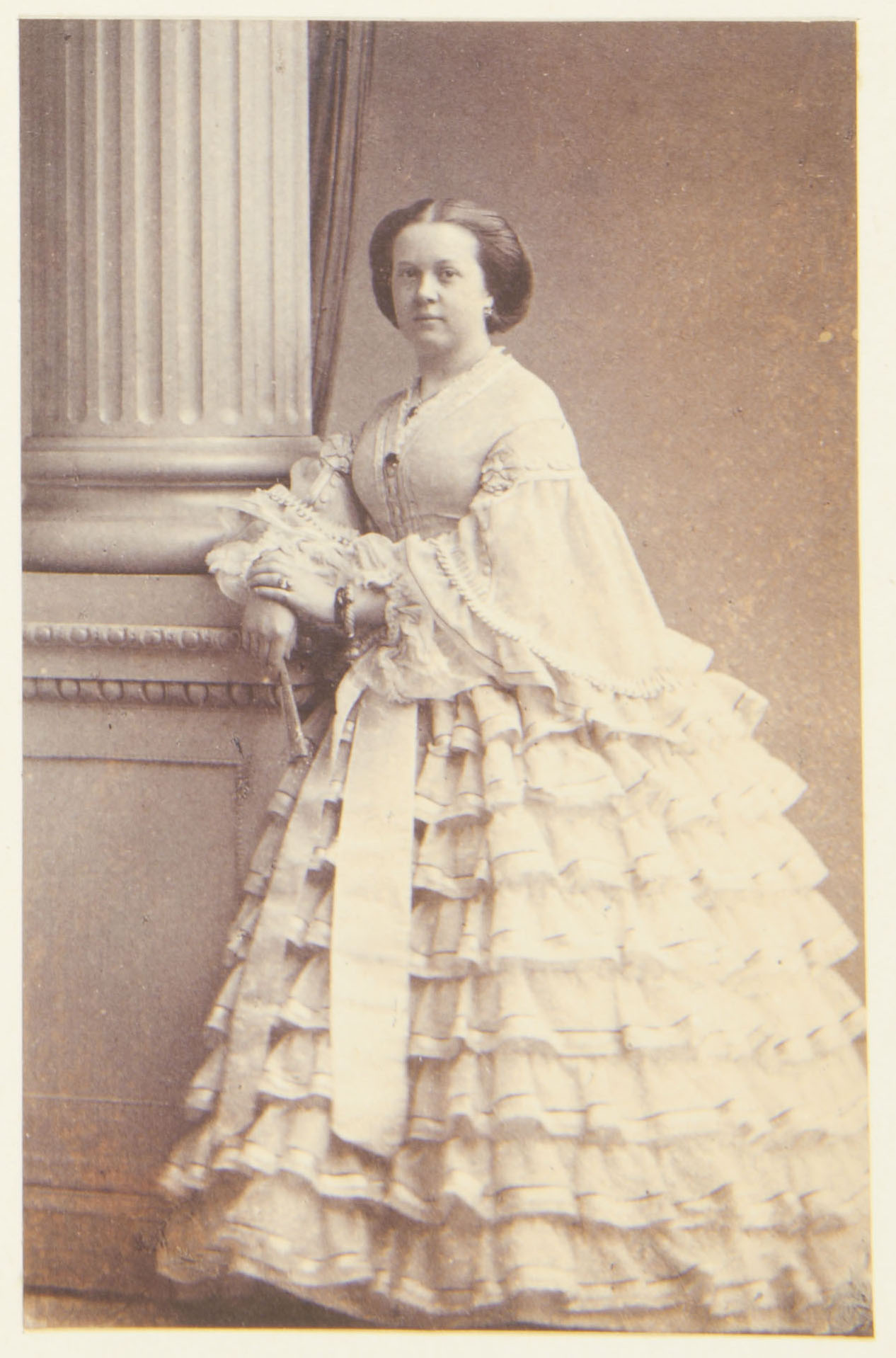 Princess Leopoldine of Baden